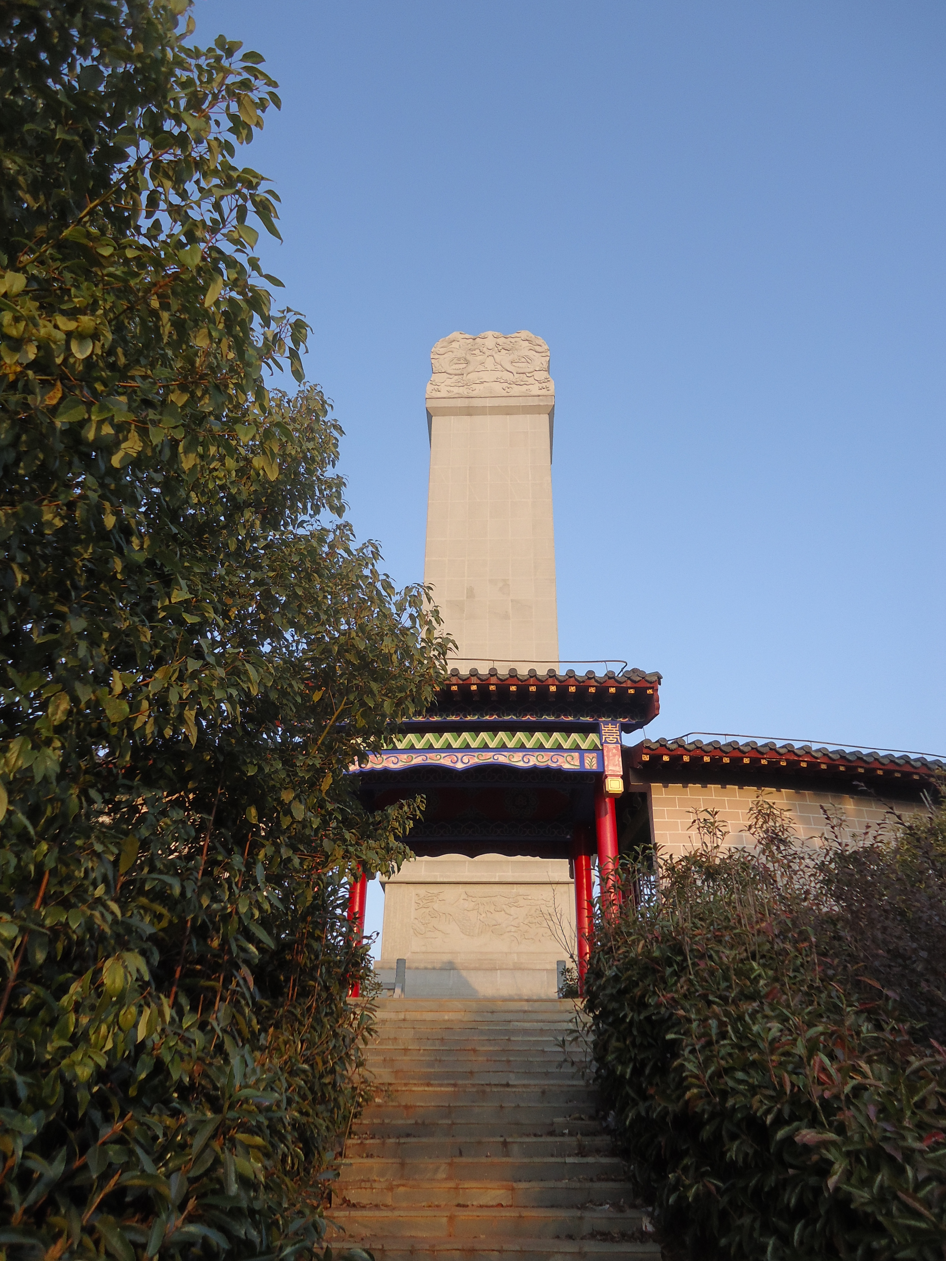 National Poyang Wetland Park, taken in Poyang county,Shangrao city,Jiangxi province,February 13,2015.